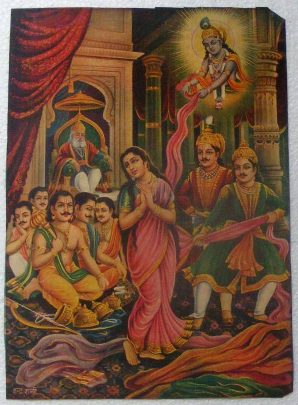 Draupadi Vastrapahanam Scene from Great Epic Mahabharata - 1940's Vintage prints